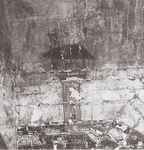 A painting of a tower, from the Chinese Eastern Han Dynasty, dated precisely 176 AD. This painting is found on the north wall of the central east-side of a tomb in Anping, Hebei province, China.